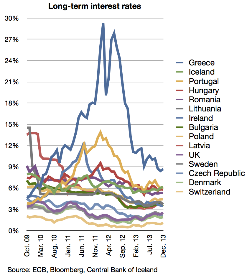 Long-term interest rate statistics for non-Euro countries plus Greece, Portugal and Ireland. (percentages per annum; period averages; secondary market yields of government bonds with maturities of close to ten years)